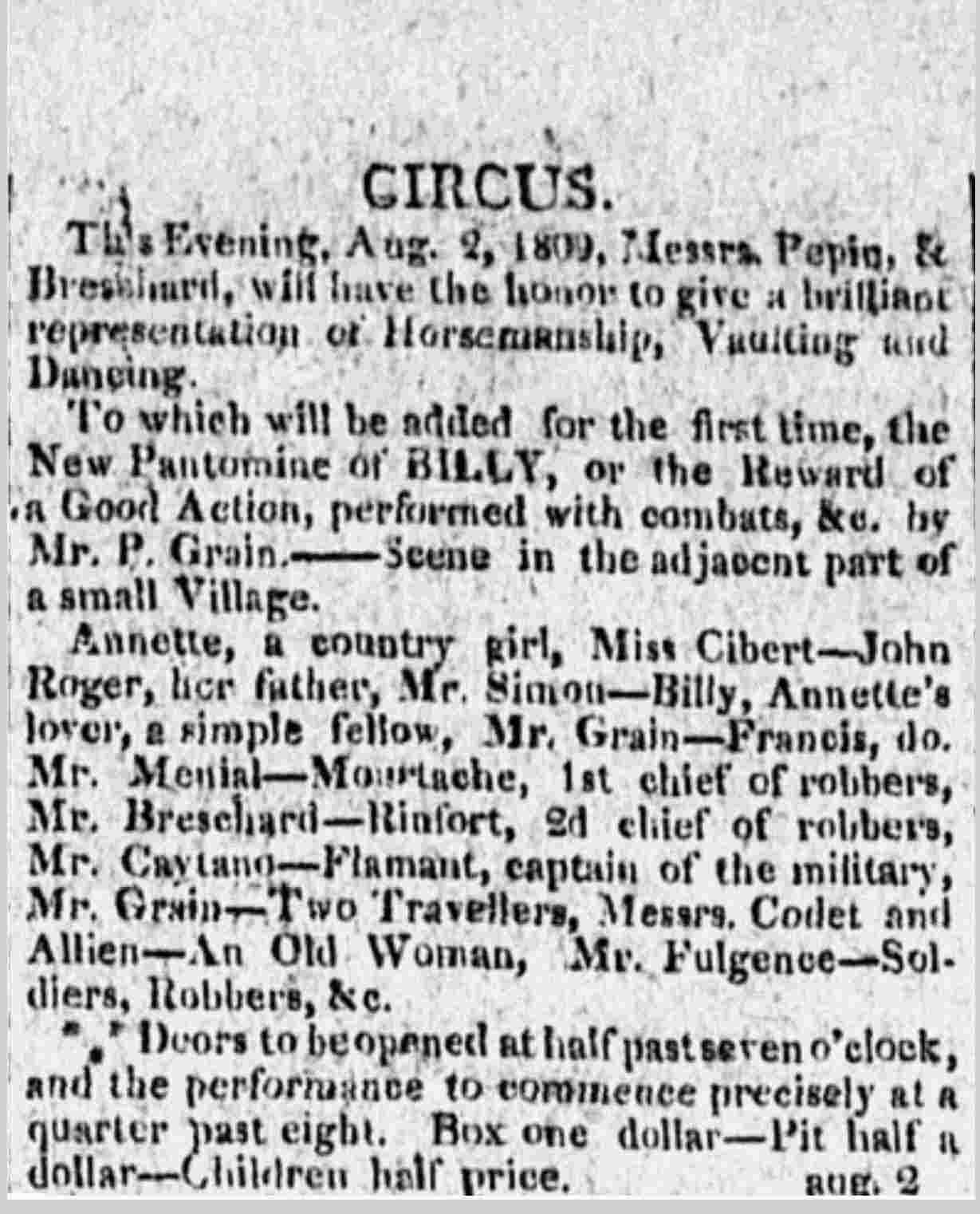 Advertisement for Circus of Pepin and Breschard, August 2, 1809